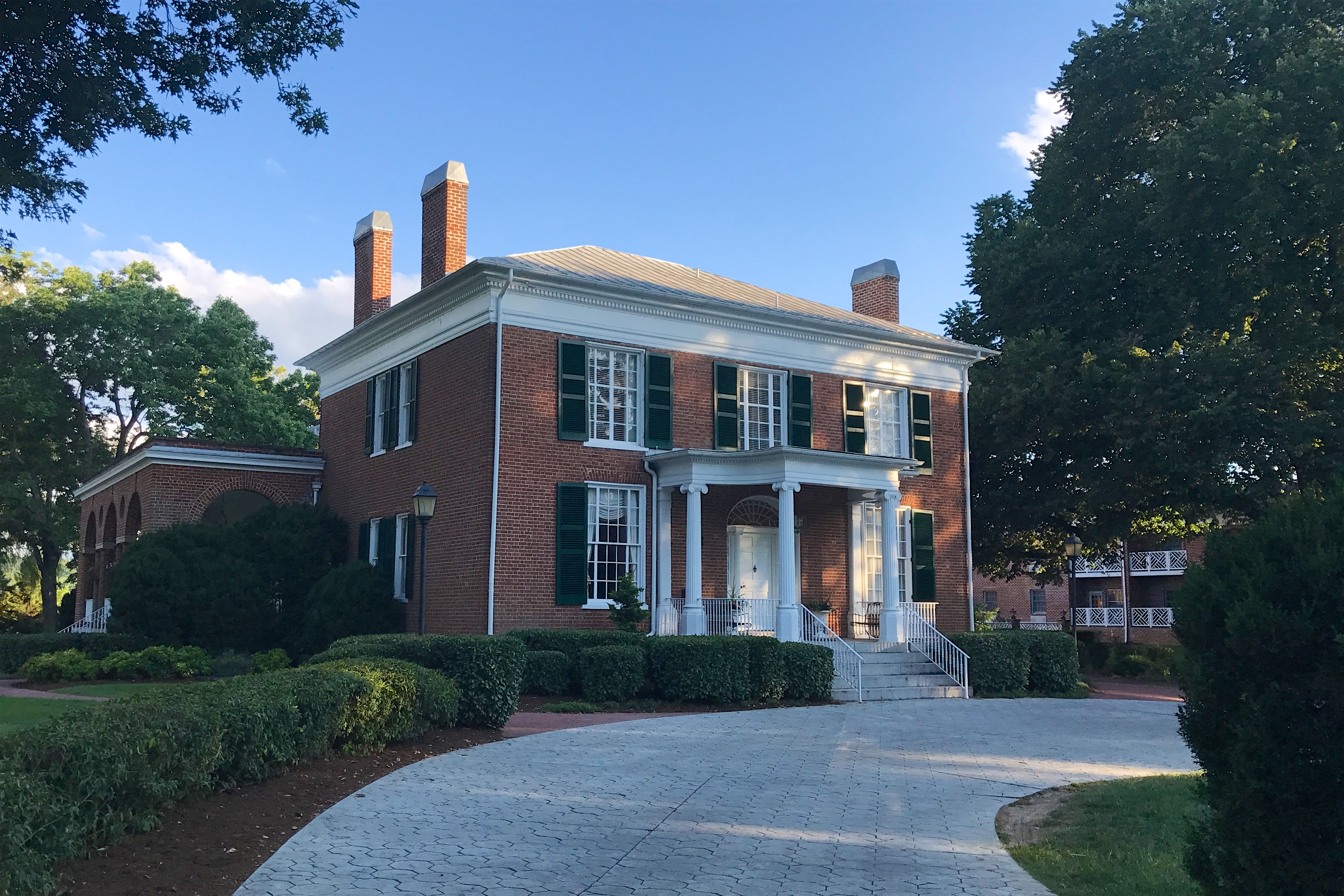 Entrance view of Col Alto in Lexington, Virginia